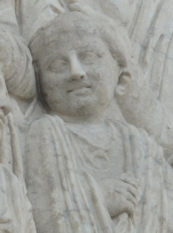 Detail from the Ara Pacis Augustae showing a Roman girl wearing a lunula (amulet), thought to protect freeborn girls from malevolent forces, demons, sorcery, and especially the evil eye.